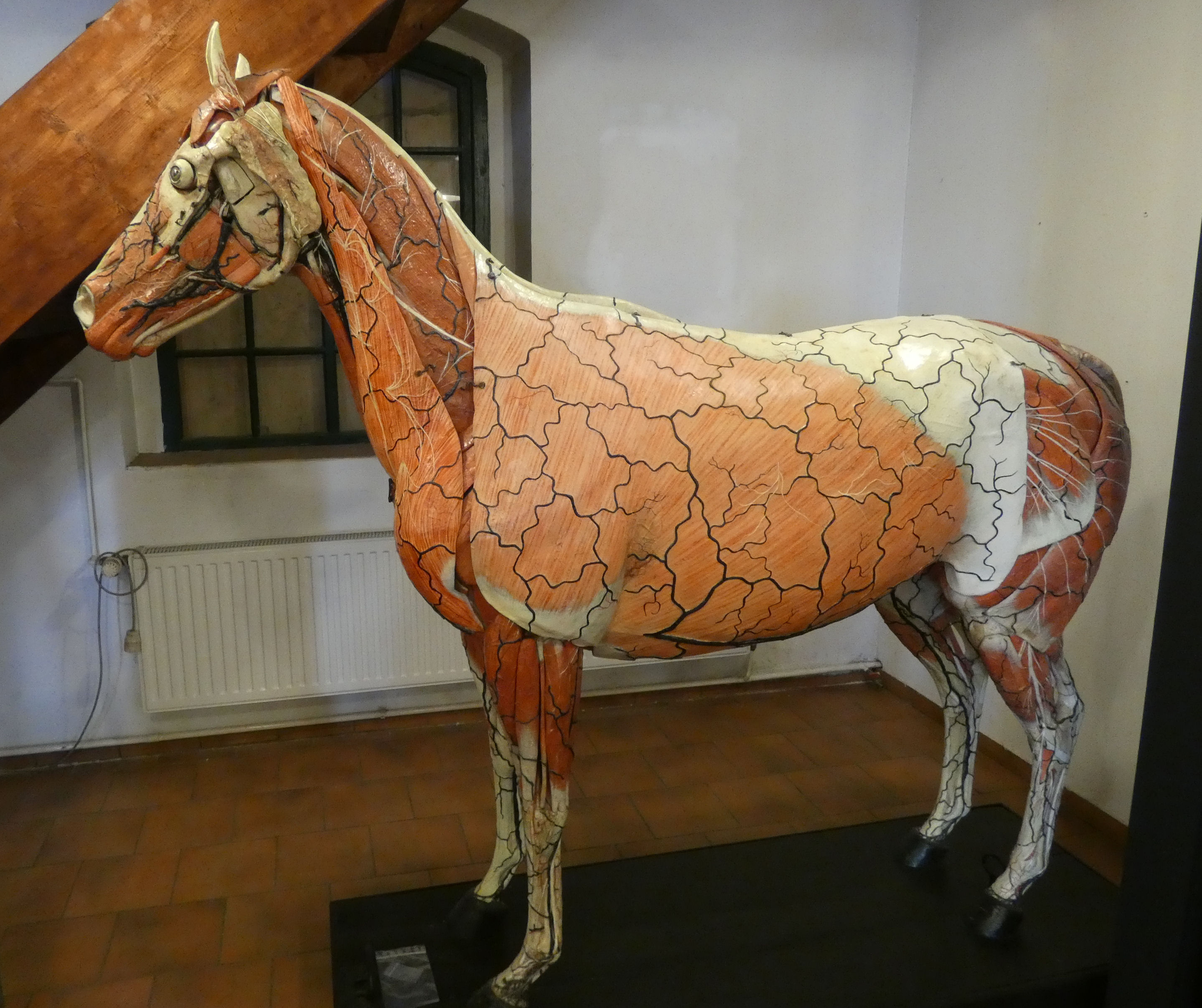 Anatomical model of a horse made of paper mache of Louis Auzoux, museum for domestic animals Julius Kühn, Halle (Saale)